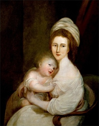 Dorcas Spear Patterson with Elizabeth Patterson as a baby, Robert Edge Pine, circa 1786, Maryland Historical Society, Gift of Mrs. Andrew Robeson (Laura Patterson Swan) 1959.118.44